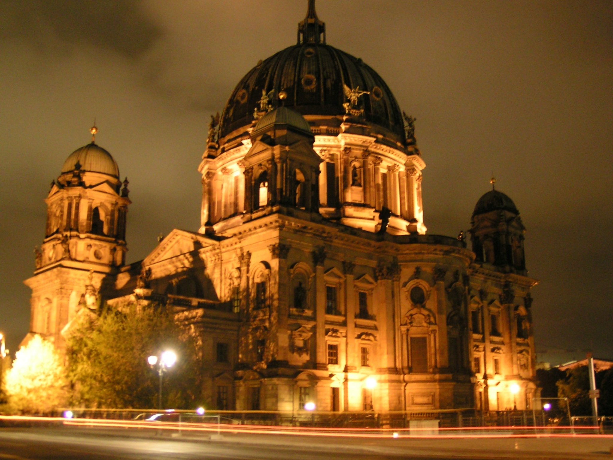 Berlin cathedral by night: Berliner Dom bei Nacht Photographer: David Herrmann photographed at Berlin, 07.05.2005